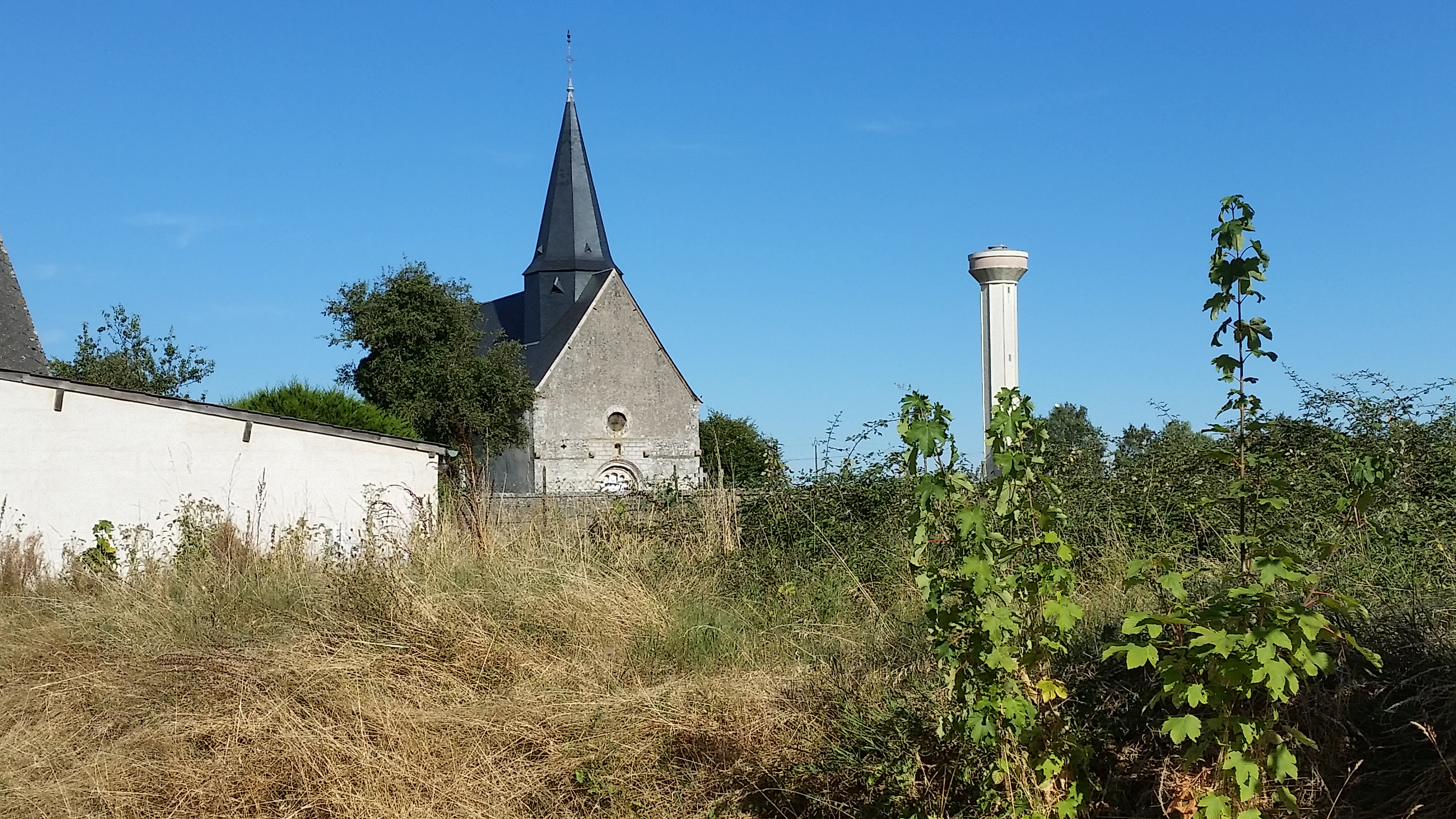 The church and the water tower of Conie-Molitard, Eure-et-Loir, France.